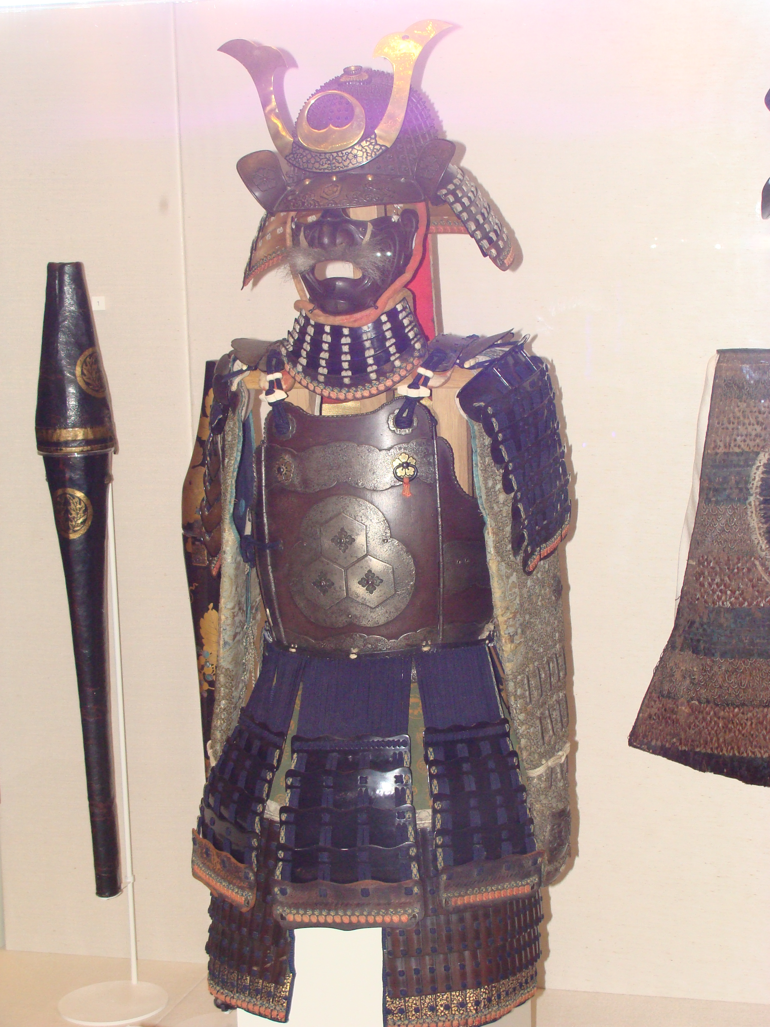 Set of armour from Momoyama period in the British Museum of London